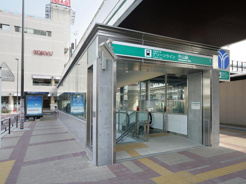 nakayama station